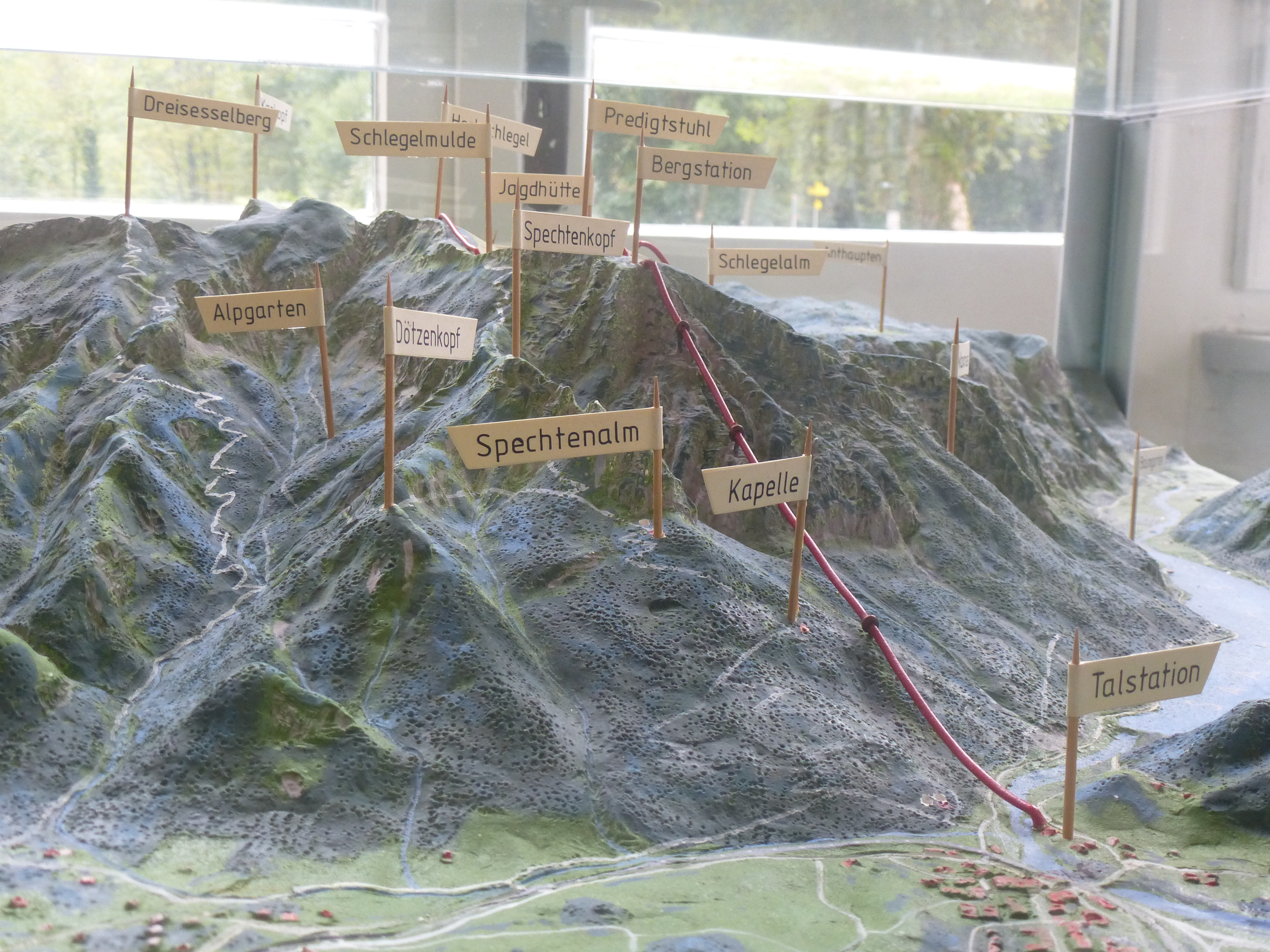 The Predigtstuhl Cable Car (German: Predigtstuhlbahn) from Bad Reichenhall up to the Predigtstuhl has been in operation since 1928 and is the oldest large-cabin cable car in world.